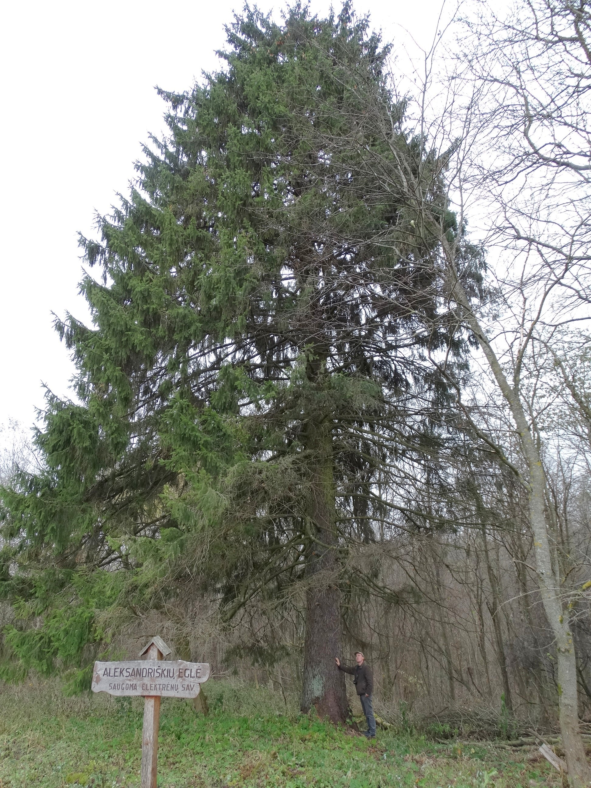 Spruce tree, Aleksandriškės, Elektrėnai Municipality, Lithuania